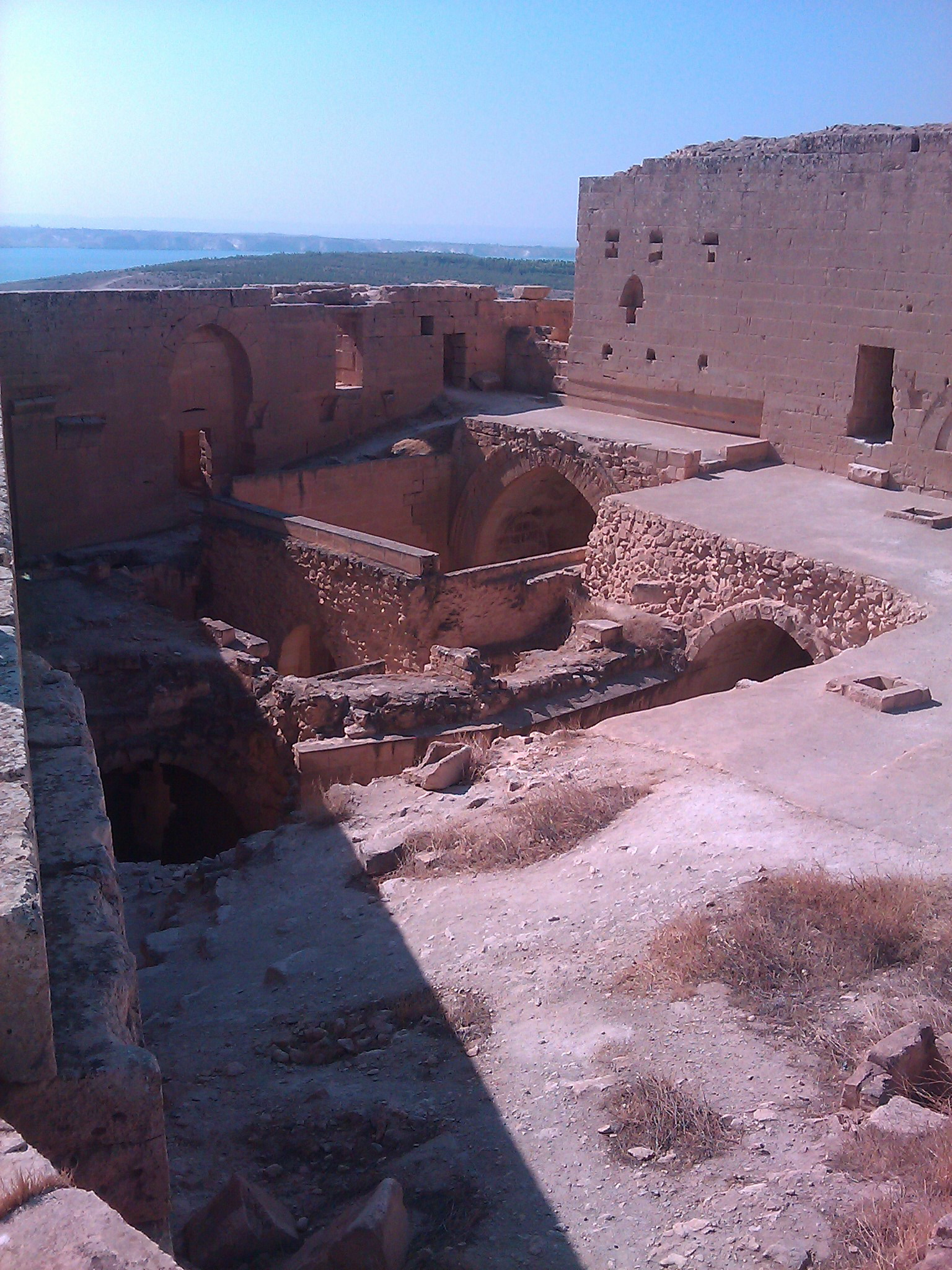 inside look of Qal'at Najm